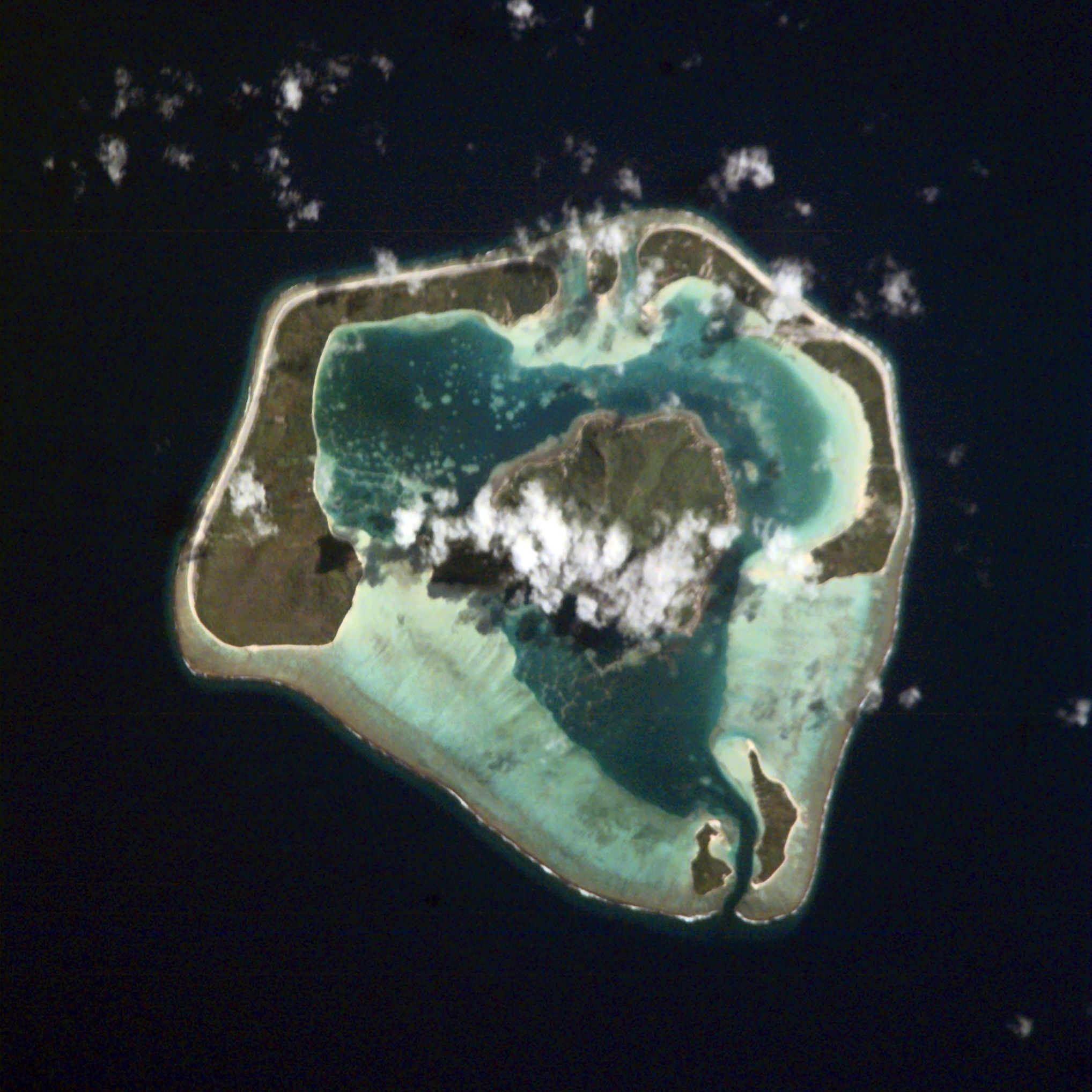 NASA astronaut image of Maupiti (French Polynesia) in the Pacific Ocean